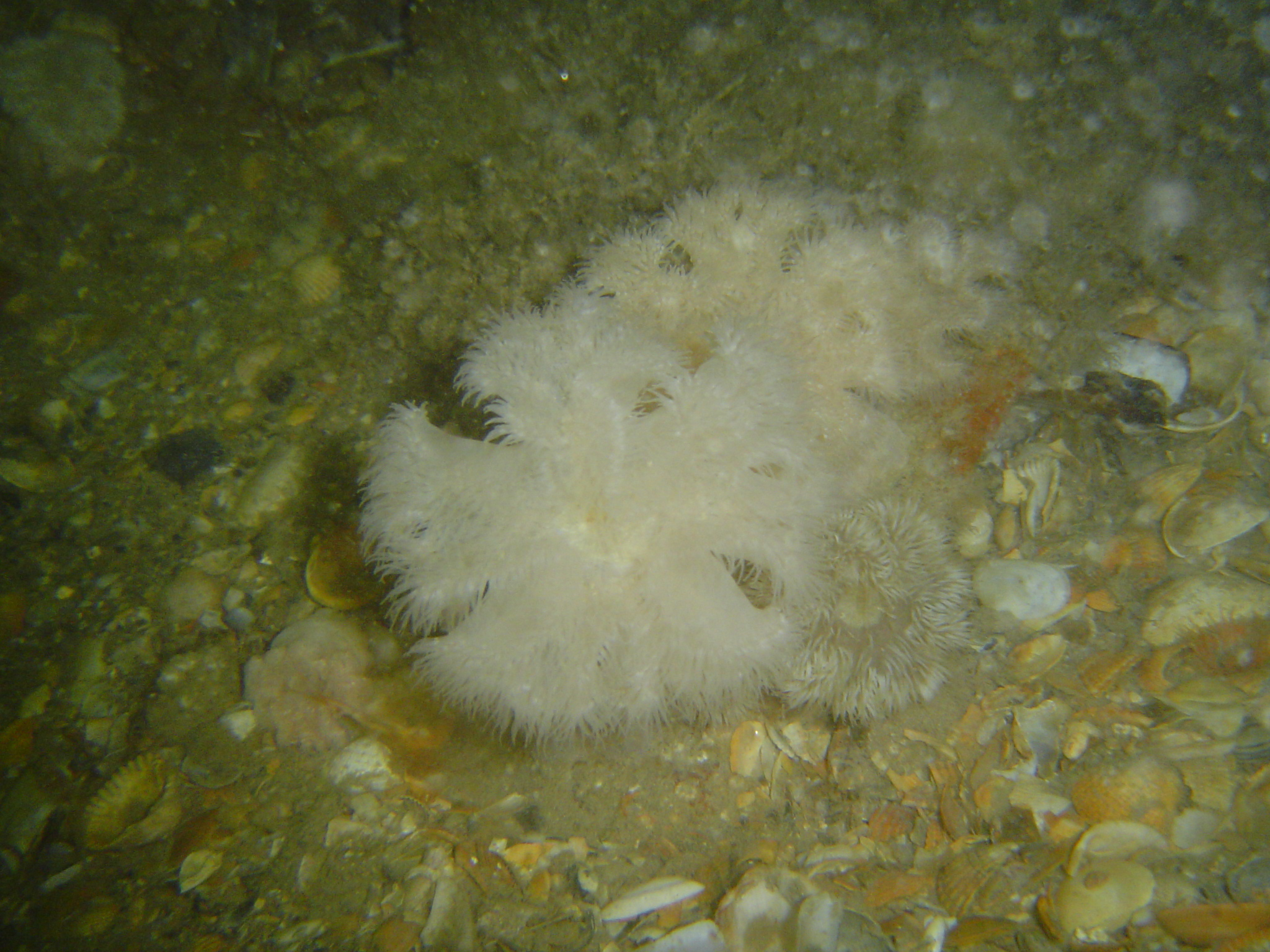 Metridum Senile, from Baie de somme, wreck "The Nytaar", Picardie, France.